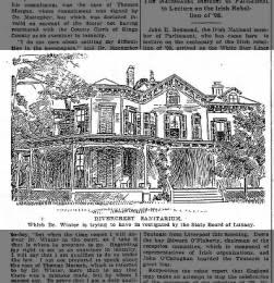 River Crest Sanitarium (image of front)